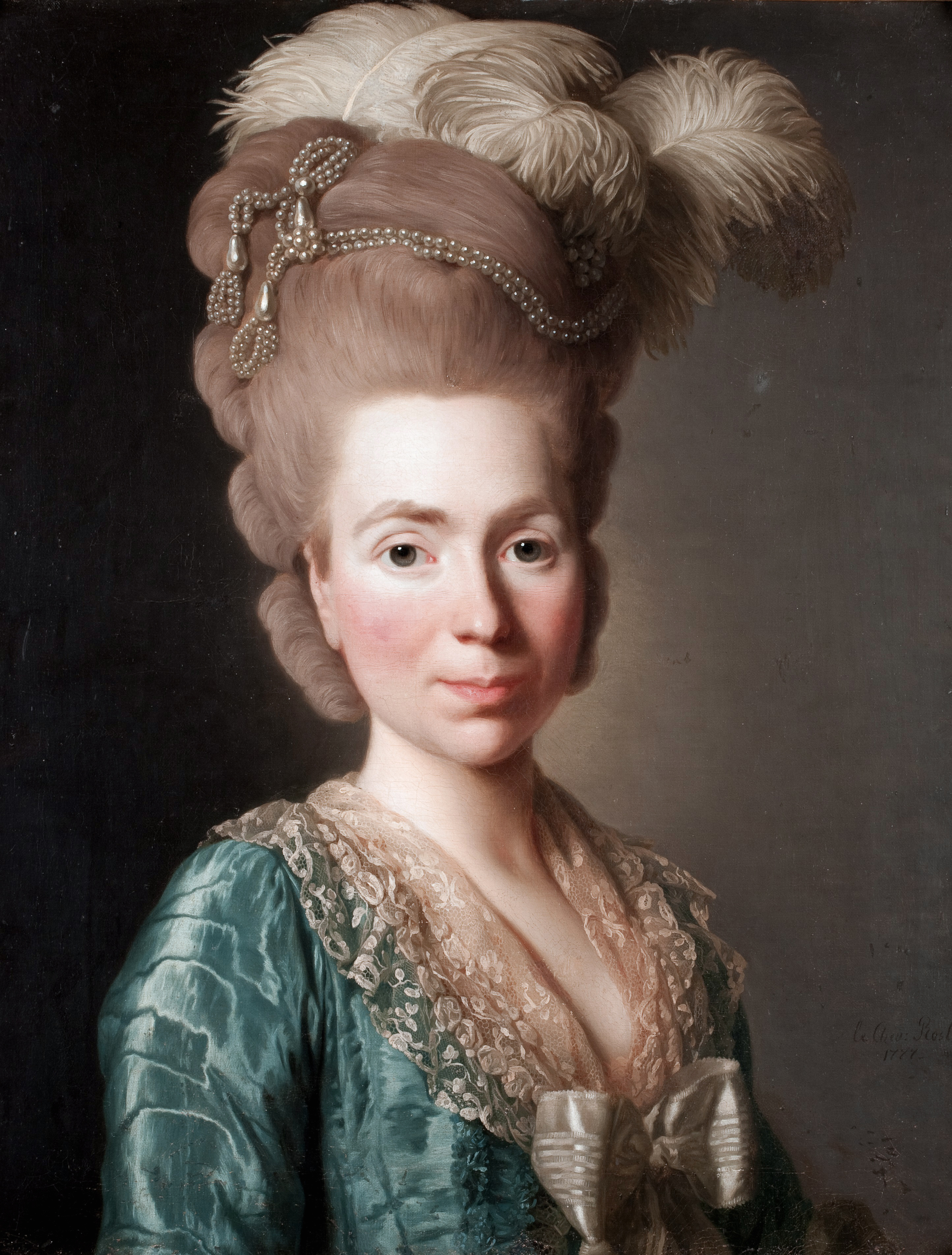 Portrait of Natalya Petrovna Galitzine (1741-1837)